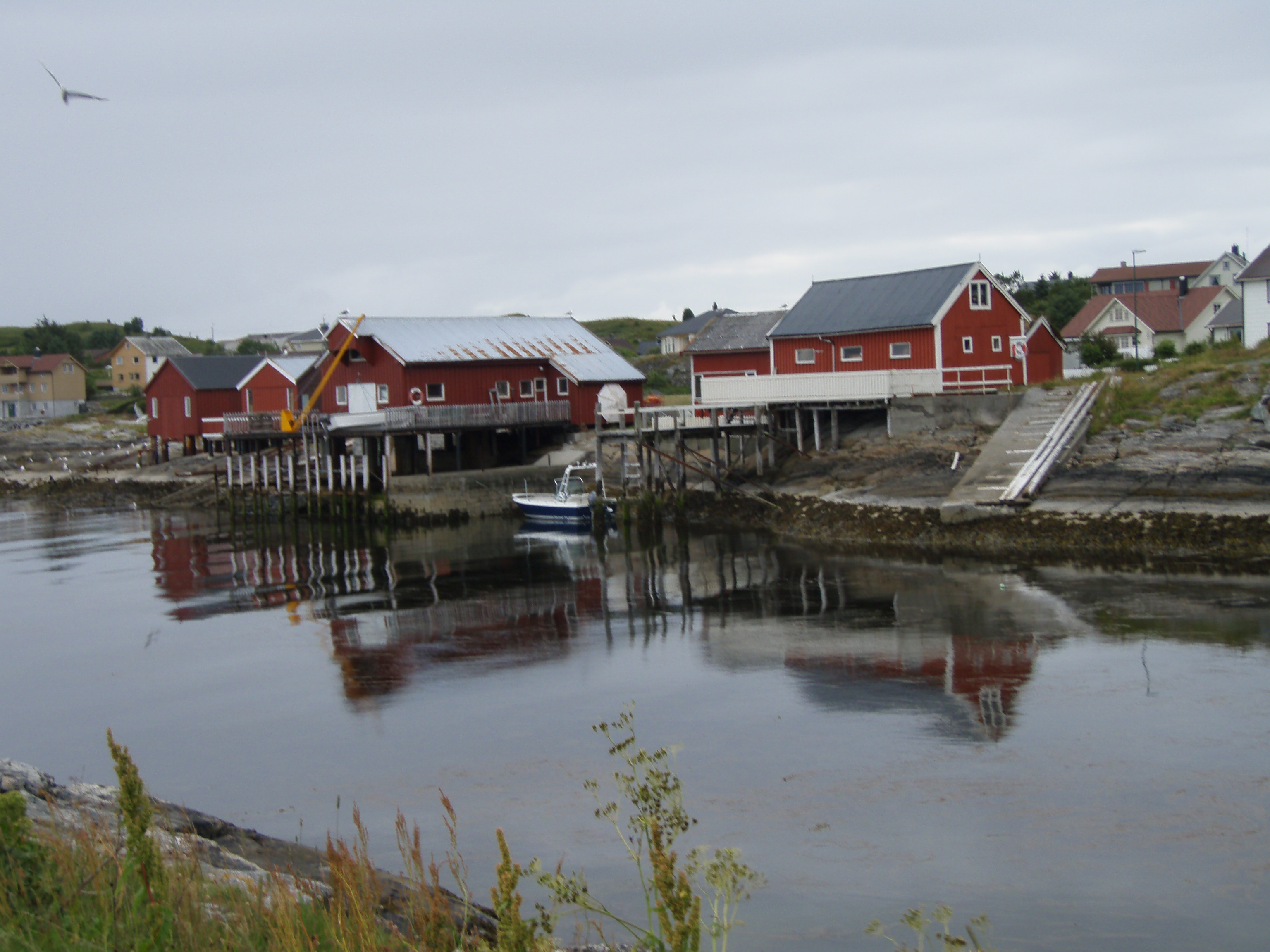 Modernized from equipment to tourists. Maritime buildings at the shore of Bud, Møre og Romsdal, Norway